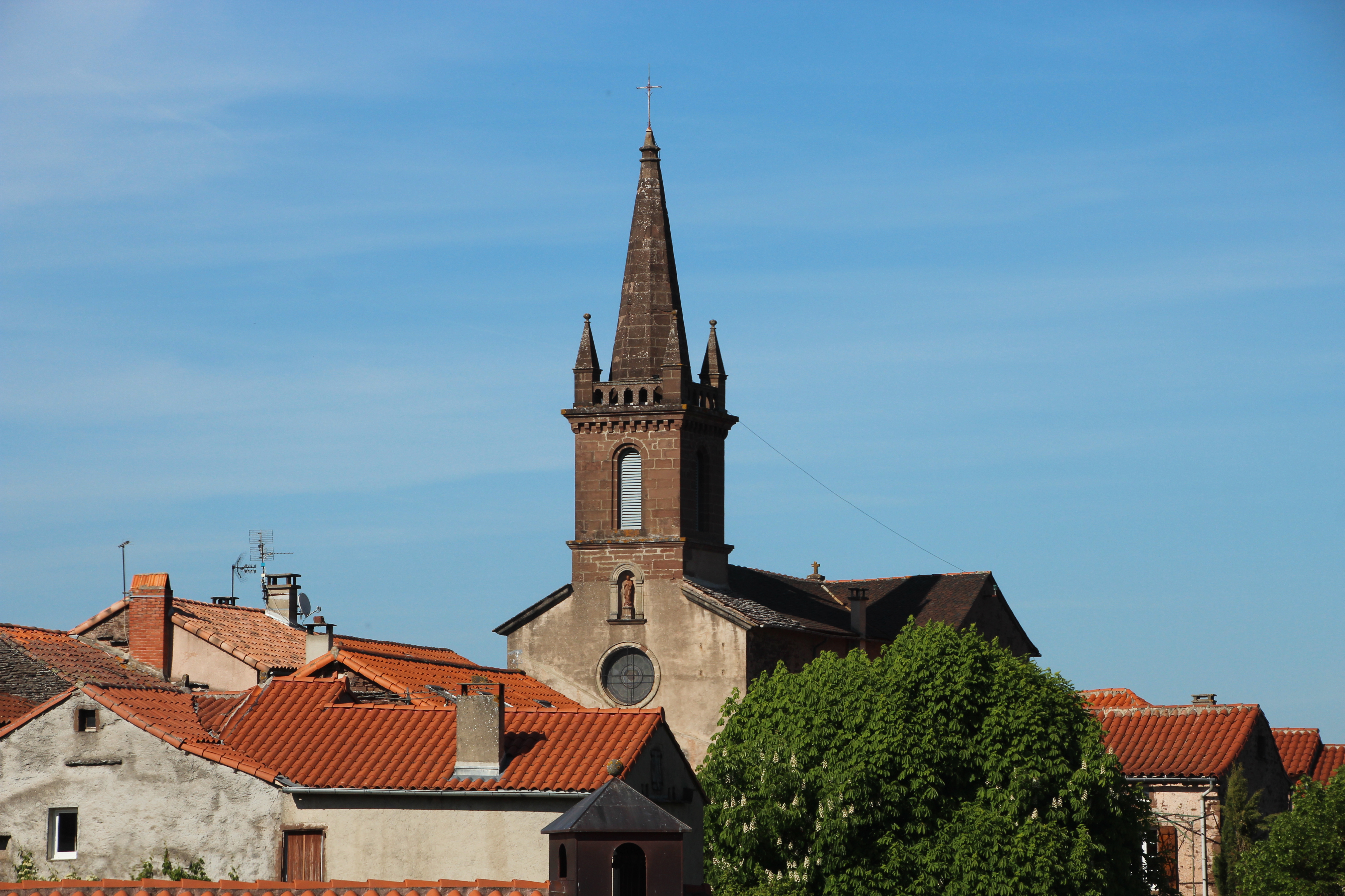 View of Calmels-et-le-Viala, France in may 2014.